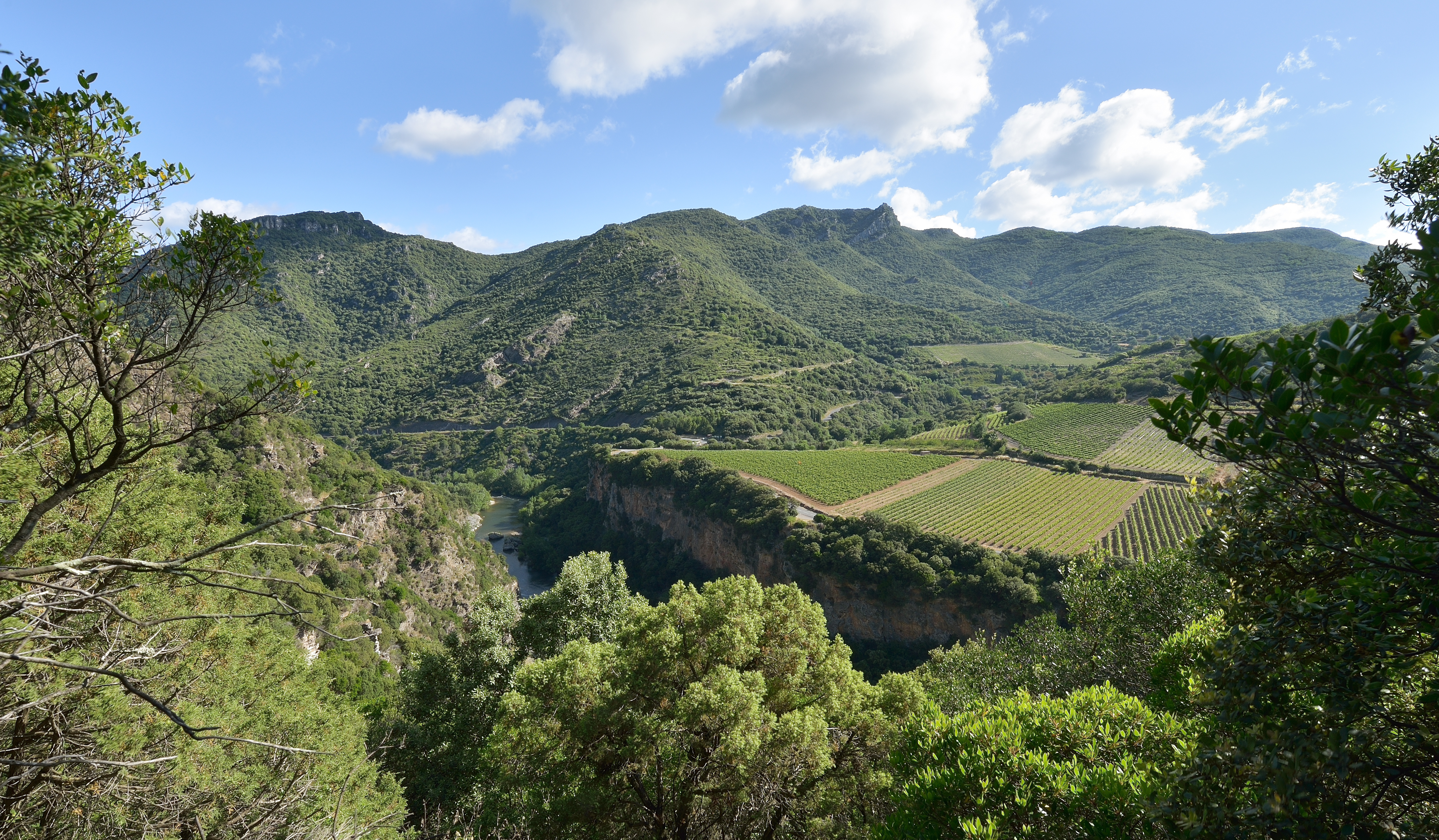 The Orb River in the Haut-Languedoc Regional Natural Park. Vieussan, Hérault, France.